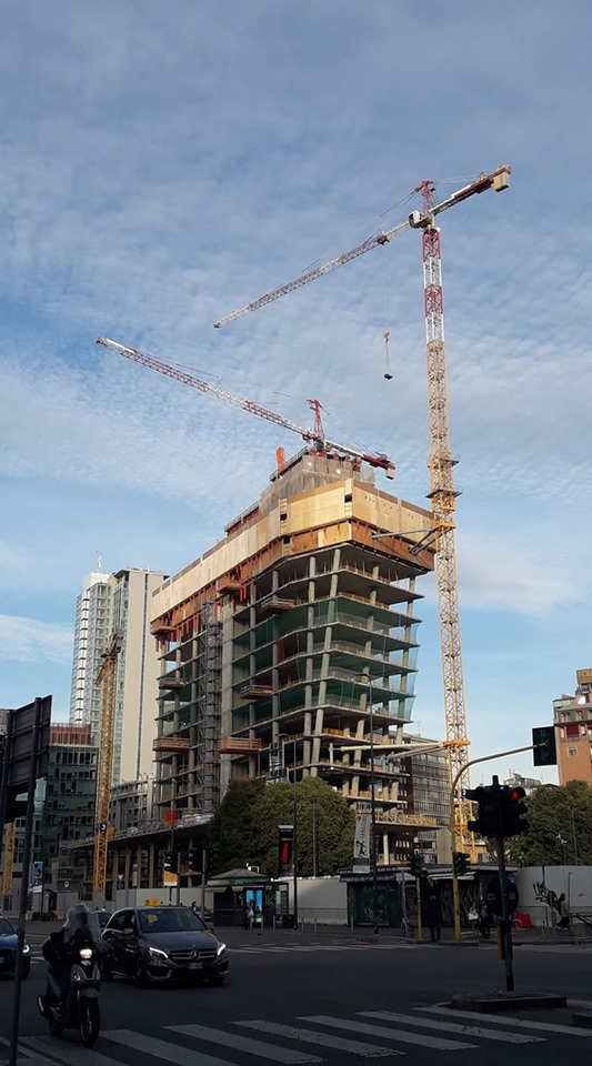 picture of Gioia 22 Building in Milan, Italy currently under construction